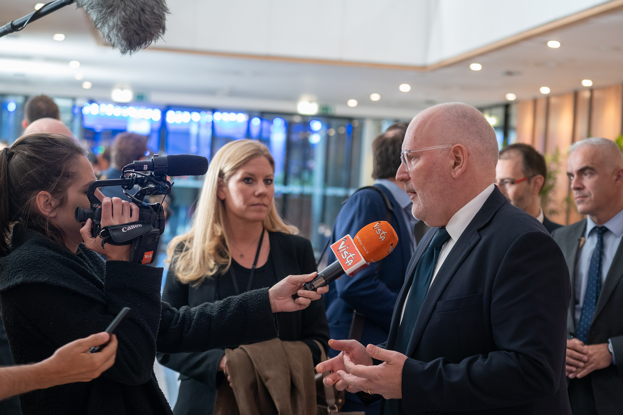 💬 Who’ll be the next president of the European Commission? Tune into the live Eurovision Debate from the Parliament in Brussels on the 15/05 at 21.00 CET! #TellEurope For more info The live debate will be moderated by TV anchors Markus Preiss (ARD WDR), Emilie Tran-Nguyen (France Télévisions) and Annastiina Heikkilä (Yle) and broadcast by the EBU's public service media members and others throughout Europe. Speaking order for lead candidates is: Nico CUÉ, European Left (EL) Ska KELLER, European Green Party (EGP) Jan ZAHRADIL, Alliance of Conservatives and Reformists in Europe (ACRE) Margrethe VESTAGER, Alliance of Liberals and Democrats for Europe (ALDE) Manfred WEBER, European People’s Party (EPP) Frans TIMMERMANS, Party of European Socialists (PES) This photo is free to use under Creative Commons license CC-BY-4.0 and must be credited: "CC-BY-4.0: © European Union 2019 – Source: EP". No model release form if applicable. For bigger HR files please contact: webcom-flickr(AT)